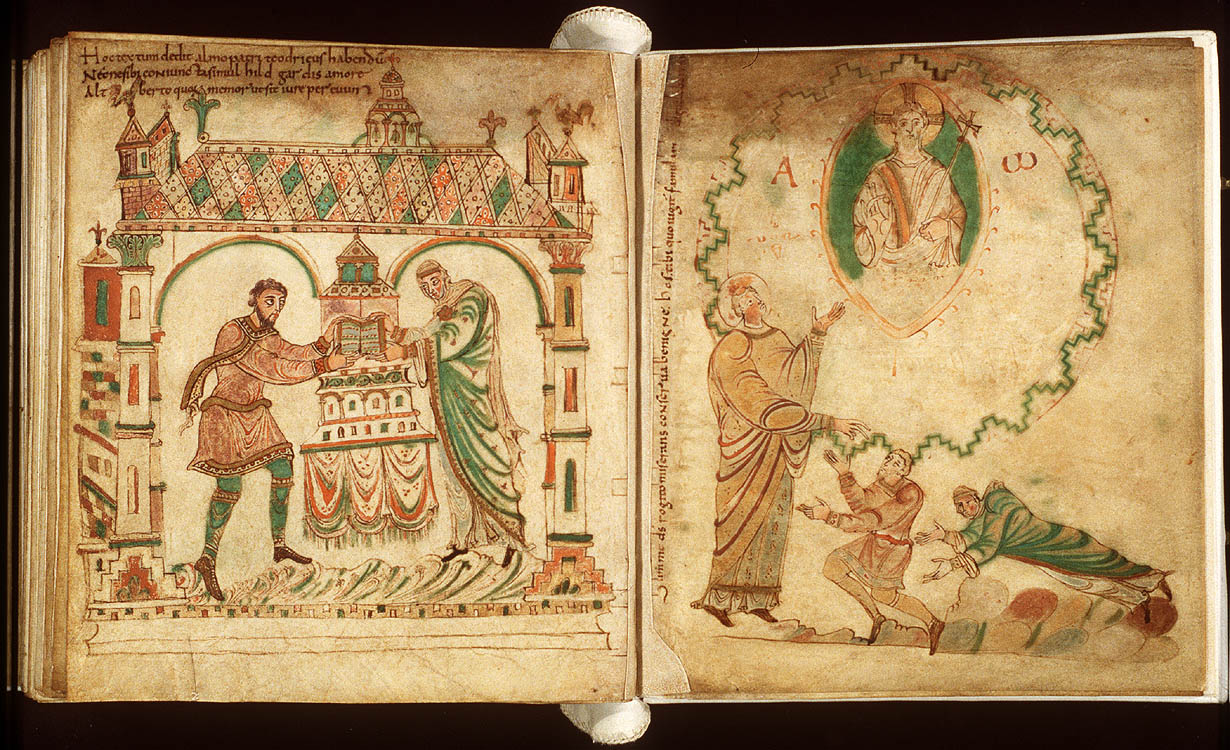 Fol. 214v and 215r of the Egmond Gospels. Dirk II and his wife Hildegard presenting the codex to the St Adelbert Abbey and the same couple imploring St Adelbert their intercessor with Christ.